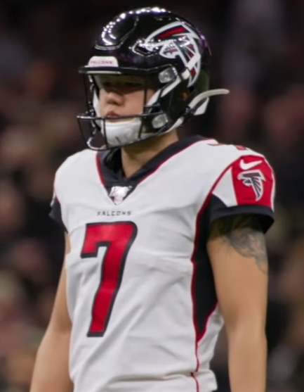 Younghoe Koo in 2019